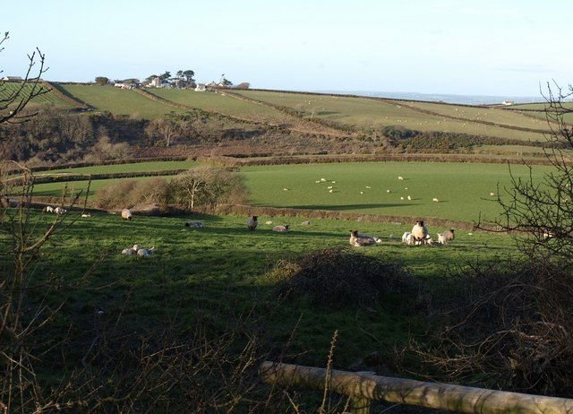 Sheep at Trencreek Ewes with their lambs on the slopes leading down towards a tributary of Millook Water. On the far hilltop is Trewint, in SX1897.